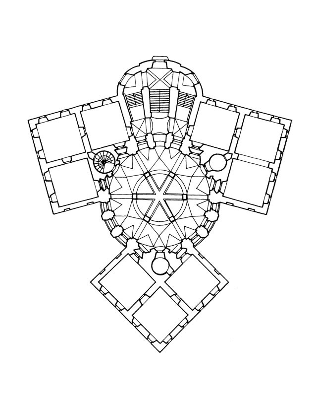 Ground plan of Karlova Koruna Chateau in Chlumec nad Cidlinou by Jan Santini Aichel